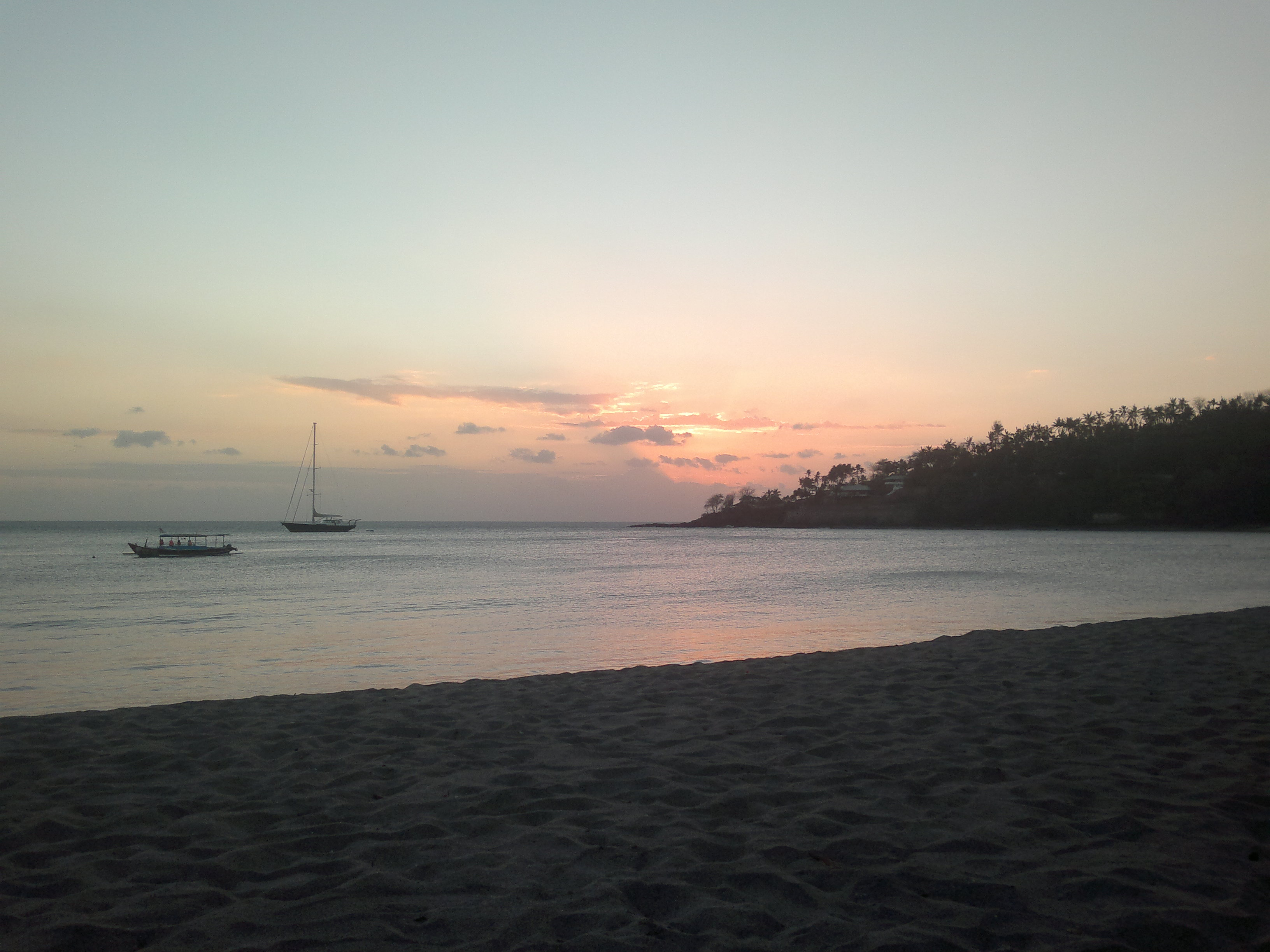 Sunset at Senggigi beach, Lombok, Indonesia